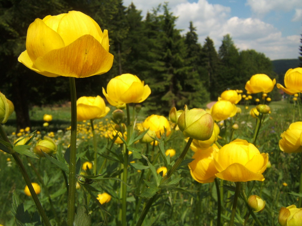 Trollius europaeus in the Vesser valley, Thuringia, Germany